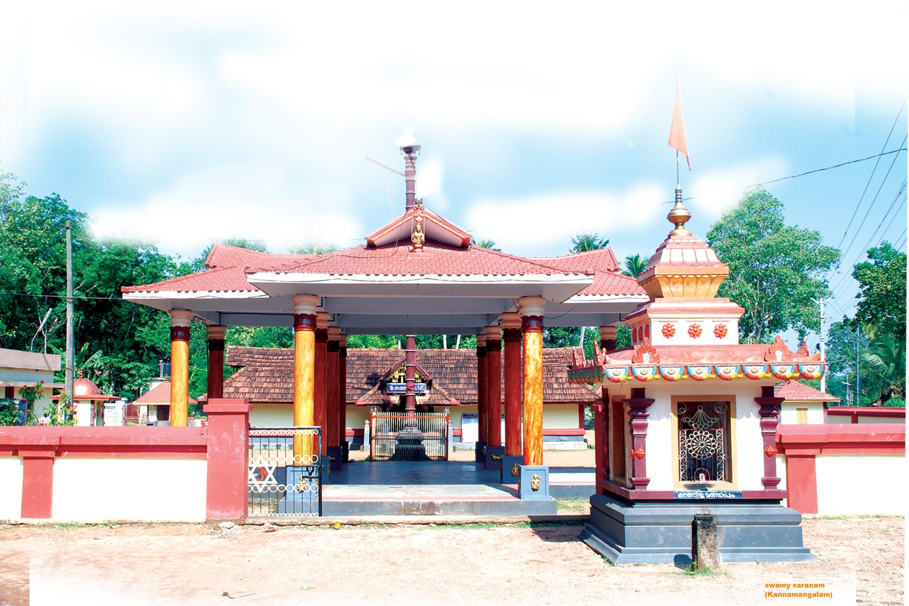 POOTHAMKARA SREE DHARMA SASTHA TEMPLE